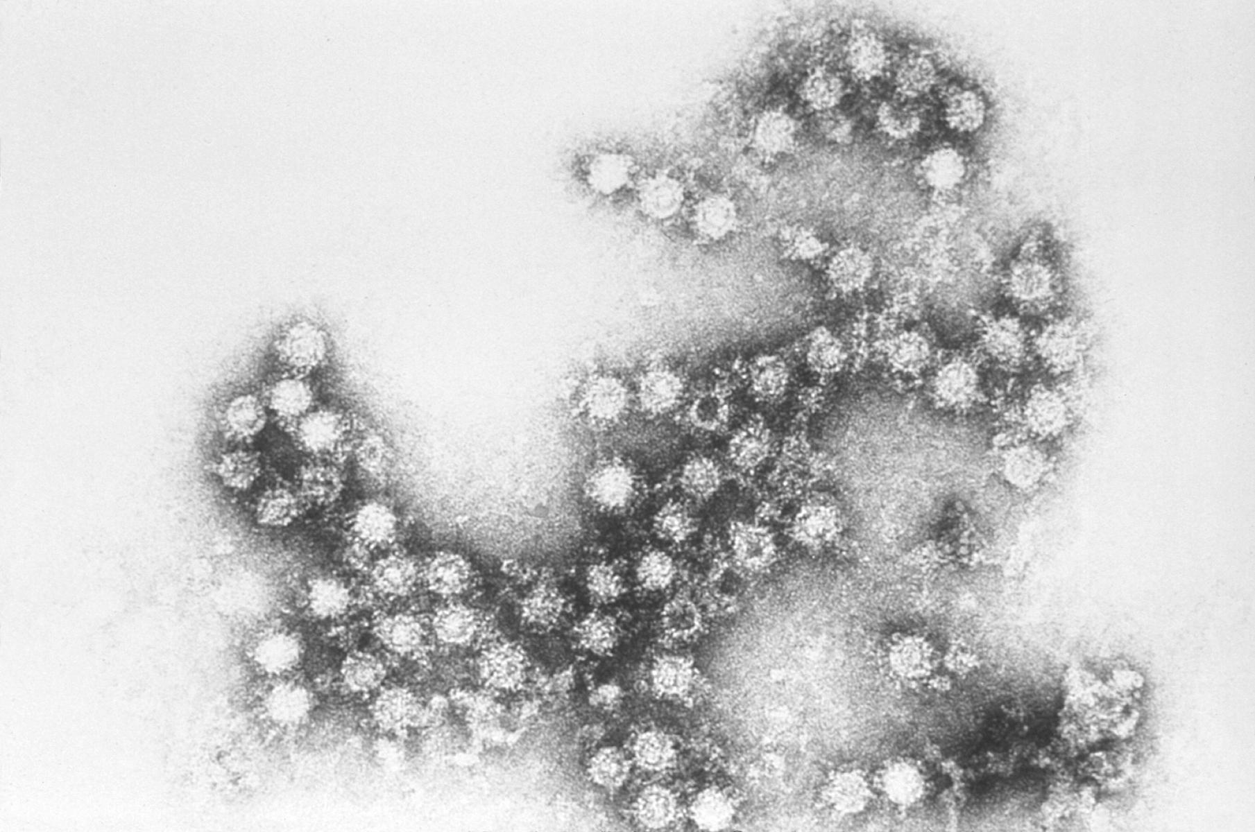 Coxsackie B4 virus seen with an immunoelectron microscope. Using immunoelectron microscopic technique, one is able to discern the morphologic traits of the Coxsackie B4 virus virions. In addition to the three different polioviruses, there are 61 non-polio enteroviruses that can cause disease in humans. These include the 23 Coxsackie A viruses, 6 Coxsackie B viruses, 28 echoviruses, and 4 other enteroviruses. Source:CDC's Public Health Image Library Image #5630